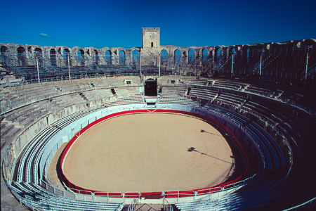 View of the Arles Amphitheatre, used for bullfighting and other events, in Arles, France